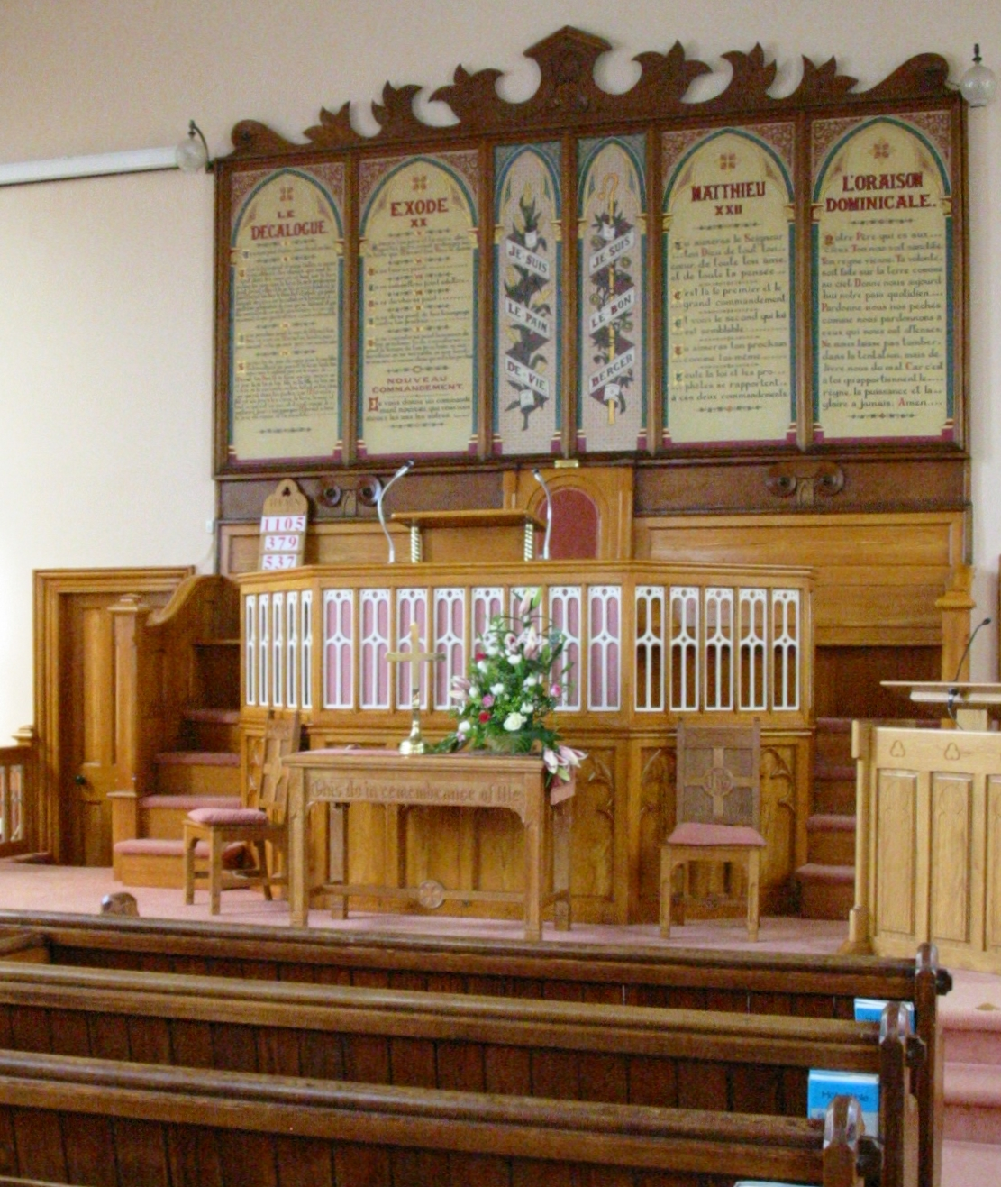 Interior St Martin Methodist Church, Jersey